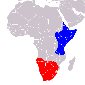 Habitat map of the Bat-Eared Fox (Otocyon megalotis); blue: subspecies virgatus; red: subspecies megalotis